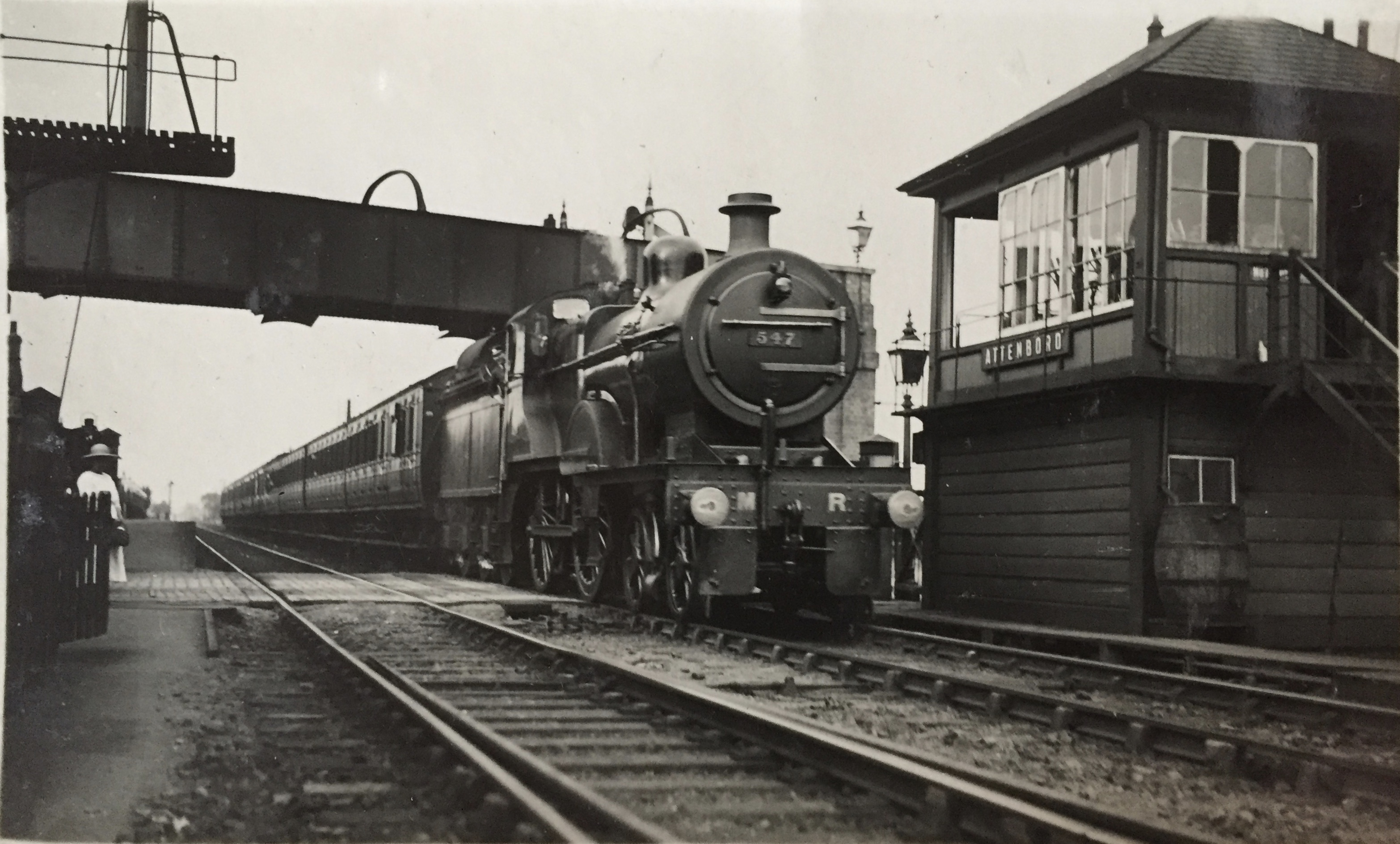 Passing Attenborough railway station. Locomotive 547 fitted for oil burning. Postcard ca. 1920